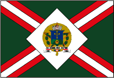 Flag of São Paulo's São José do Barreiro city, Brazil.